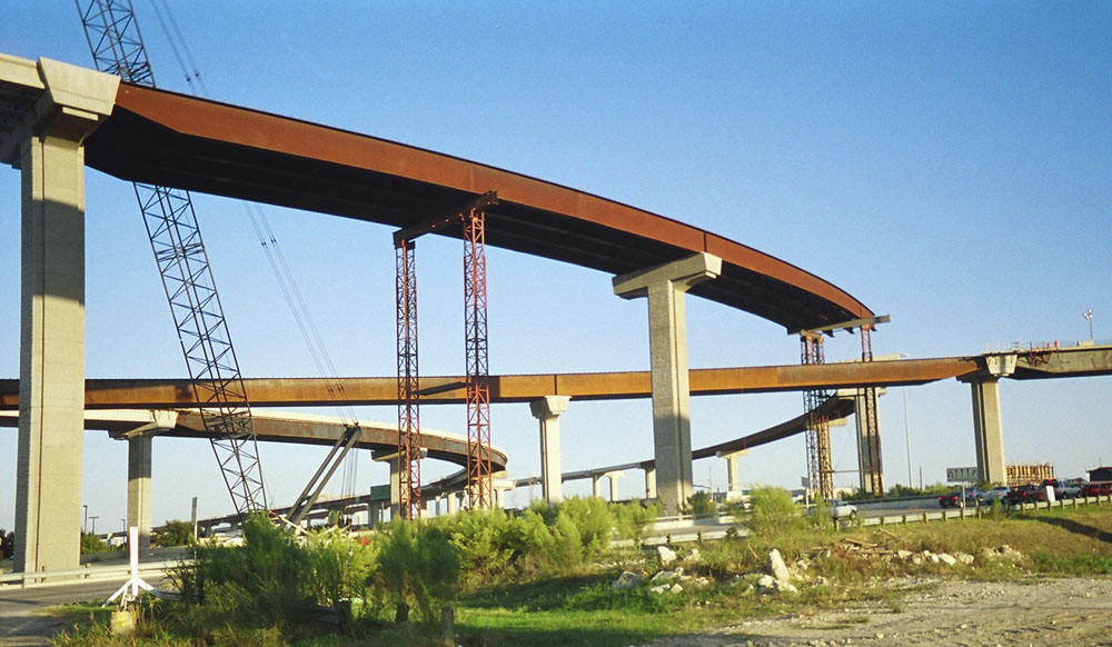 The interchange of IH-35 and Texas State Highway 45 under construction in Round Rock, Texas, United States